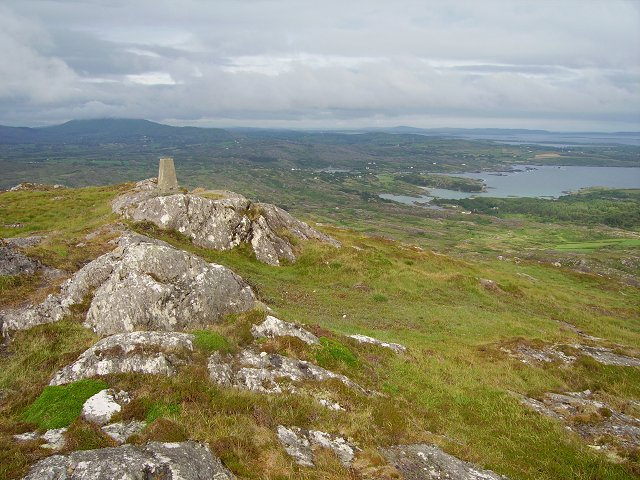 Knockaphuca The summit of a distinctive conical hill. 237m high with a view over Toormore Bay.